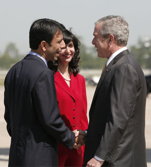 President George W. Bush (right) is greeted by Louisiana Governor Bobby Jindal (left) and his wife, Supriya Jolly Jindal (center), on his arrival to Louis Armstrong New Orleans International Airport Monday, April 21, 2008, where President Bush will attend the 2008 North American Leaders’ Summit. White House photo by Joyce N. Boghosian